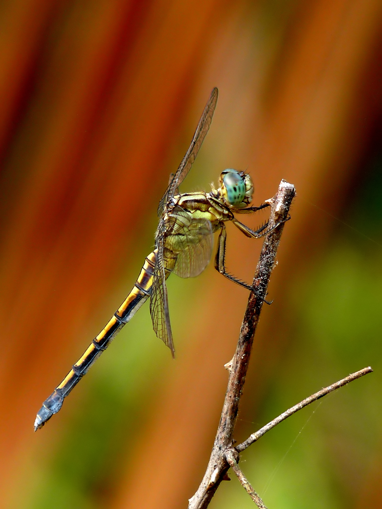 Orthetrum luzonicum, Tricolored Marsh Hawk, is a medium sized dragonfly with blue, yellow and brown markings. Eyes are bluish green with violet or brownish spots. Thorax is pale olivaceous green with brown lateral stripes. Dorsal side has a distinct yellow "Y" shaped mark. In older individuals, brown and yellow markings may be totally replaced by pale blue pruinescence. They look alike Orthetrum glaucum and Orthetrum triangulare. However, the eyes of Orthetrum luzonicum are a vivid blue/green colour and of Orthetrum glaucum eyes are dull in comparison. The male's thorax and abdomen are bright powdery blue and S9-10 can be black, though there are specimens where this turns blue too. The males also have slight yellow/black markings on the abdomen, which seem slightly variable depending on age. Like the male, the female becomes pruinosed. The thoracic markings are different and the eyes are similar in colour to that of the male, making it easily identifiable. Taken at Kadavoor, Kerala, India.